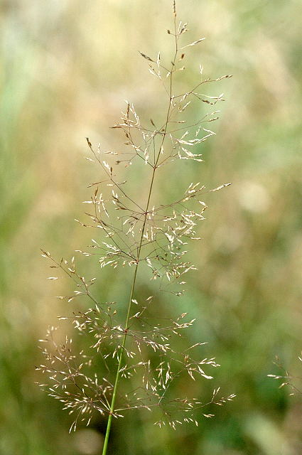 Picture taken in Commanster, Belgian High Ardennes . Species: Agrostis capillaris